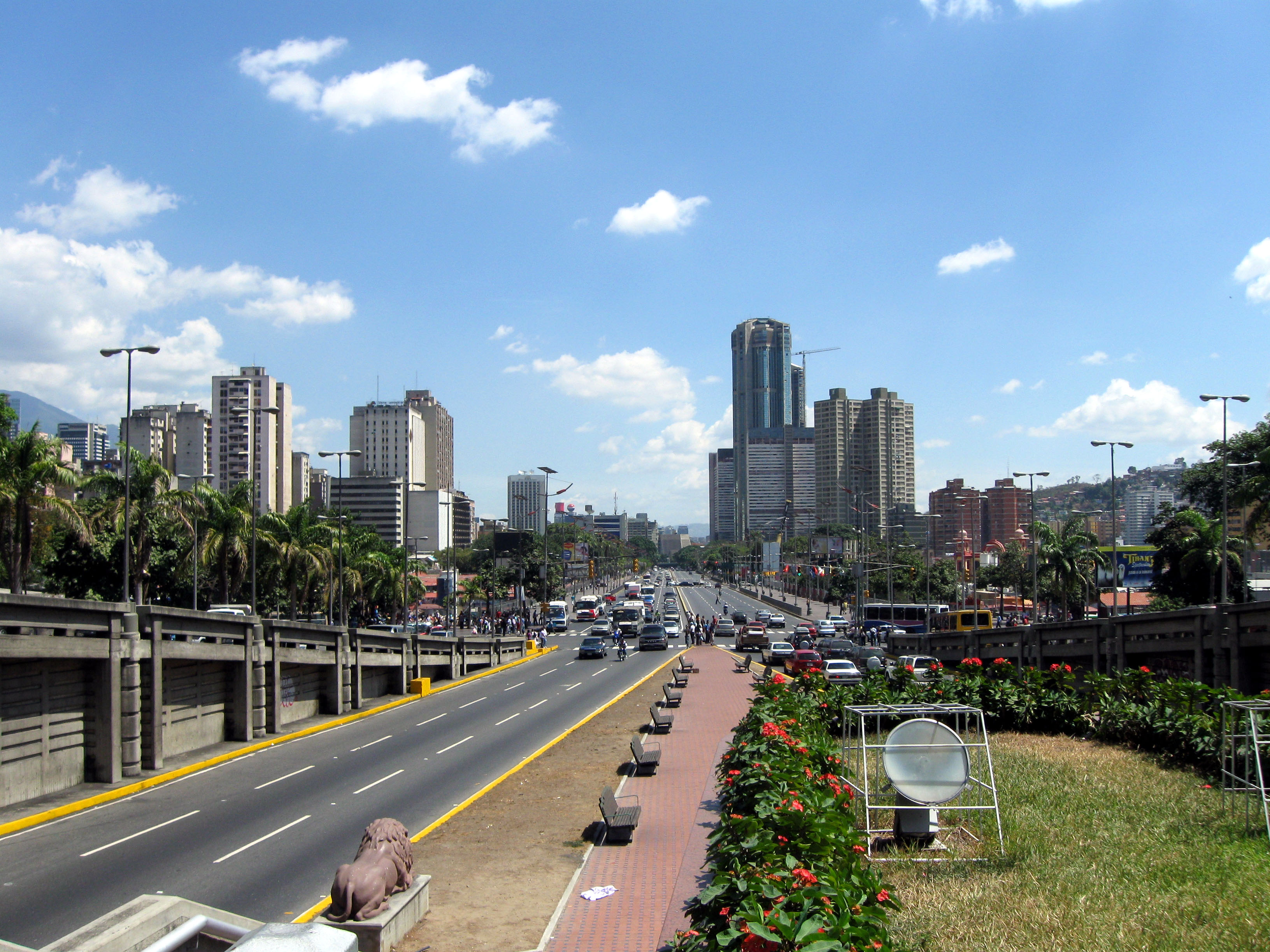 View down Avenida Bolívar, Caracas, Venezuela